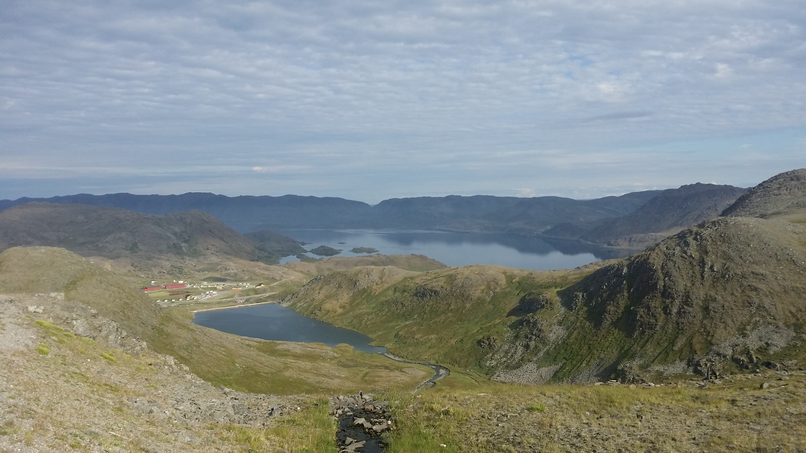 Skipsfjorden is a village and a fjord on Magerøya of Nordkapp municipality in Finnmark.